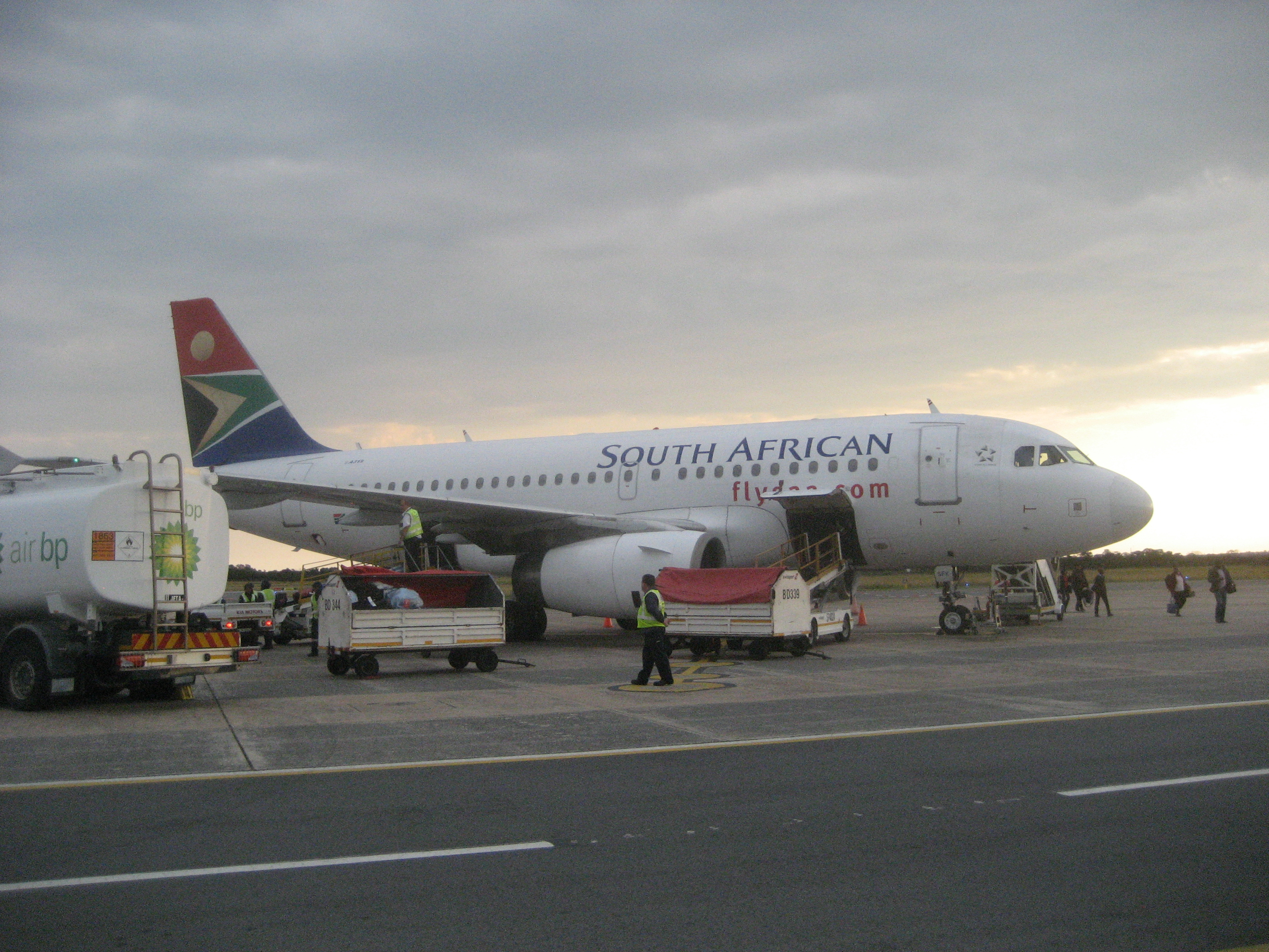 Airbus A319 (South African Airways) at East London Airport (South Africa), May 2016